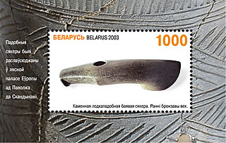 Stone scaphoid battleaxe. Early Bronze Age.